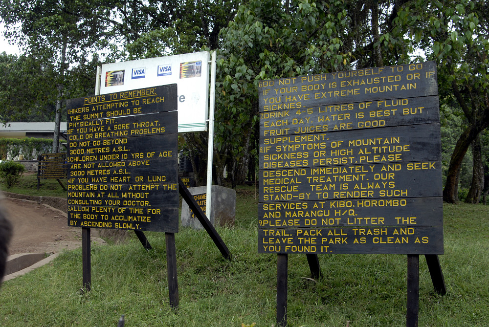 Kilimanjaro caution signs at the Machamé trailhead, 2008